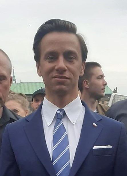 Krzysztof Bosak in Poznań (Sunday June 7 2020)